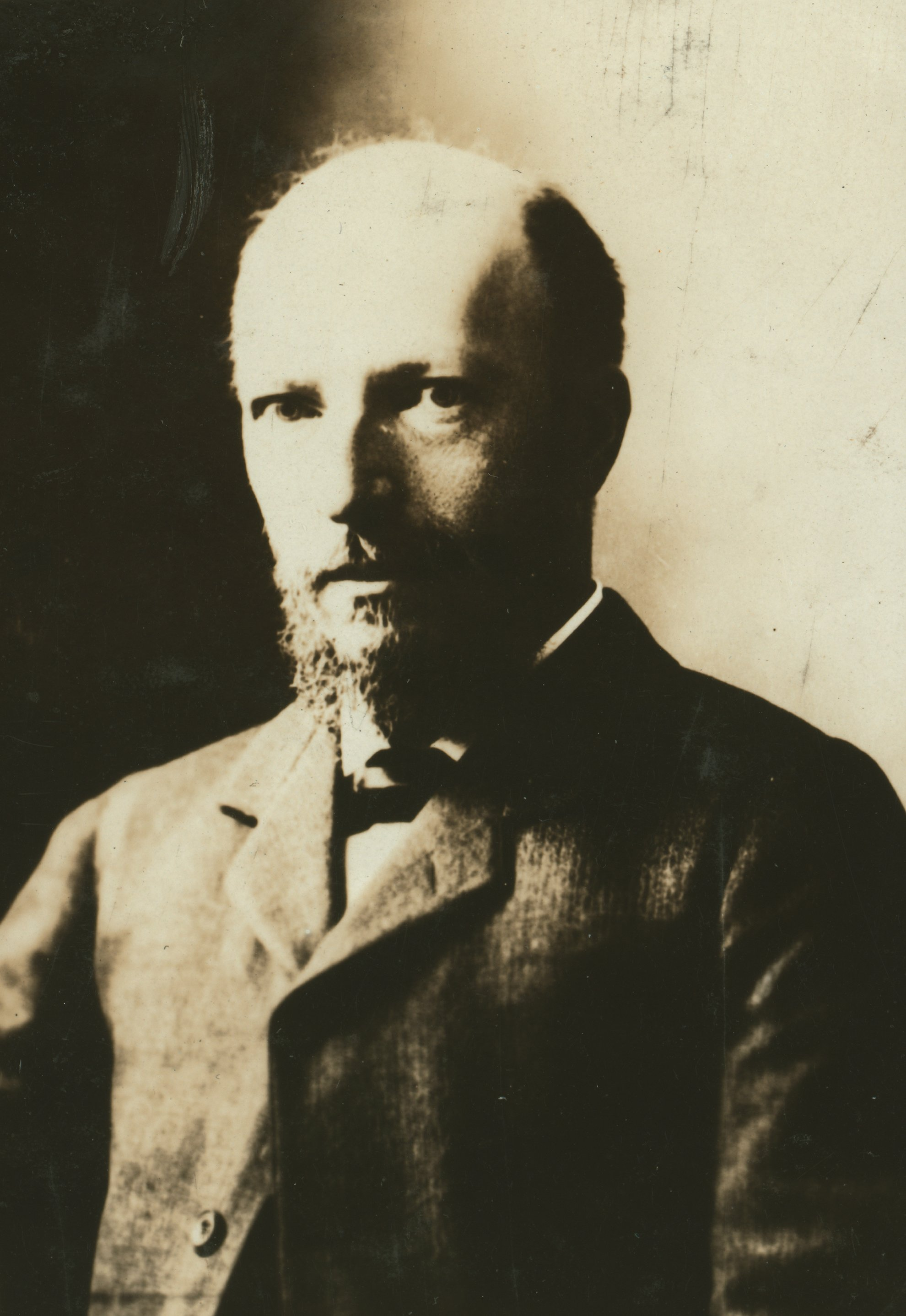 Dr. Felix Adler, Chairman, National Child Labor Comittee. Attribution to Hine based on provenance. In album: Miscellaneous. Hine no. 3479. No date or location recorded on caption card; 1913 estimate based on captions for photos with neighboring numbers.